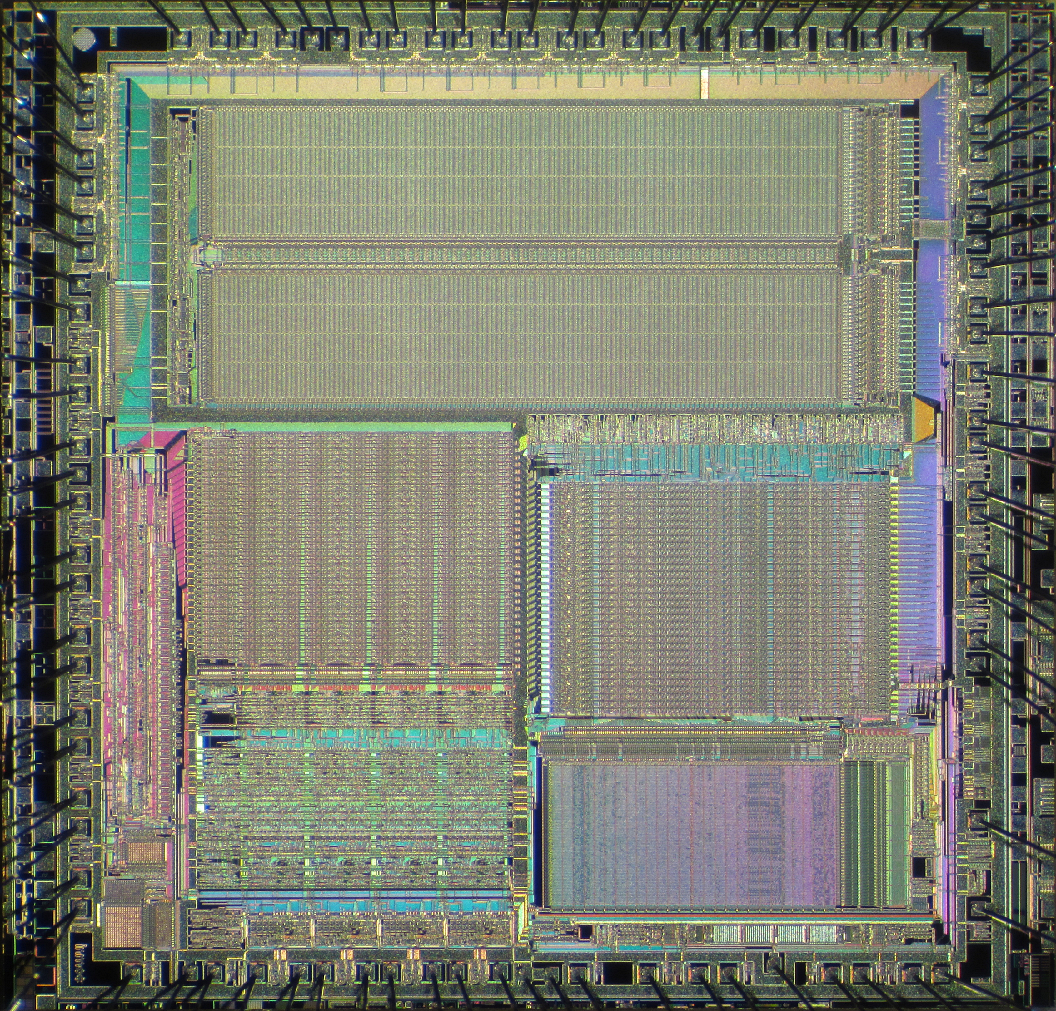 Die shot of Inmos T425 transputer (IMST425-G20S).